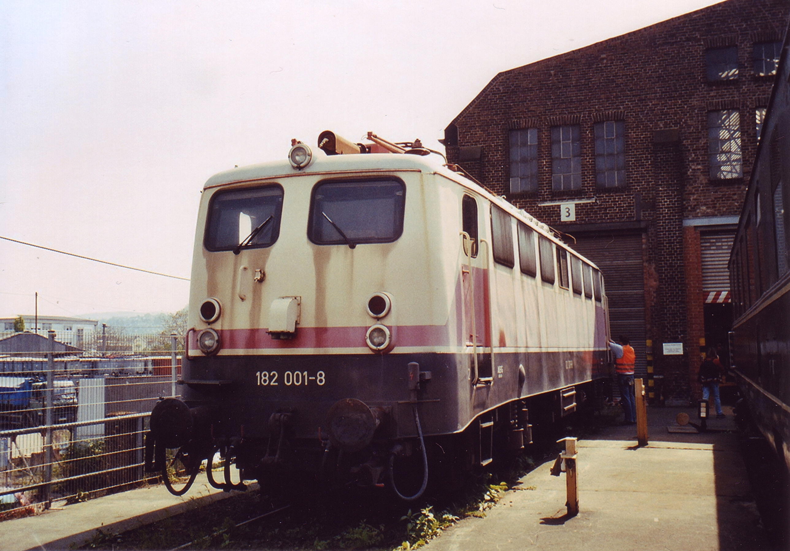 Historical DB electrical locomotive 182 001 at the open-air exhibition ground of the DB Museum in Koblenz-Luetzel, a local branch of the Transport Museum in Nuremberg